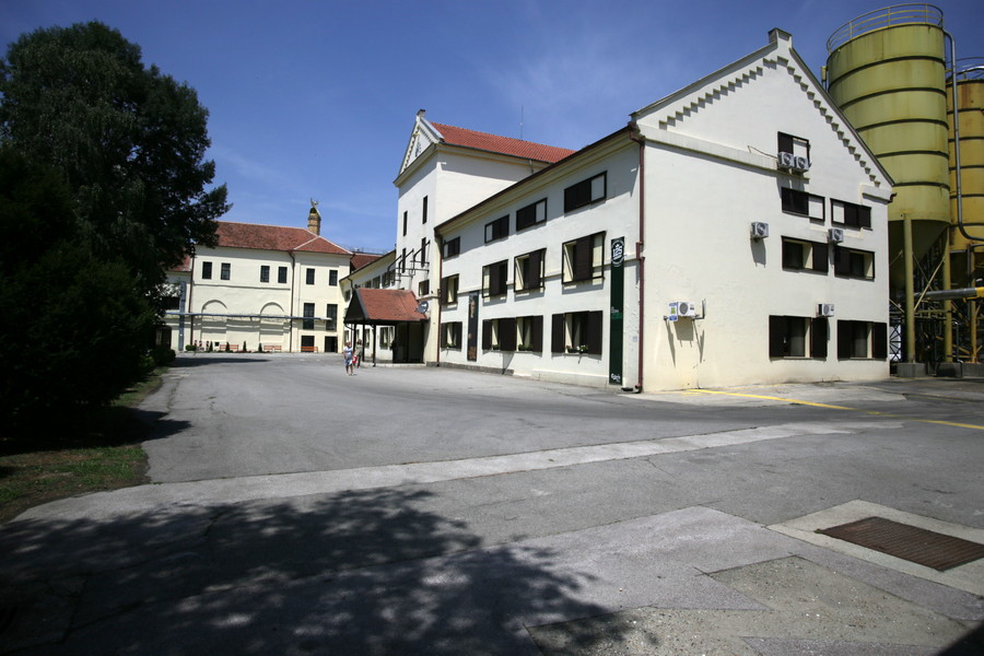 Factory Pivara Čelarevo Srpski (latinica): Pivara Čelarevo